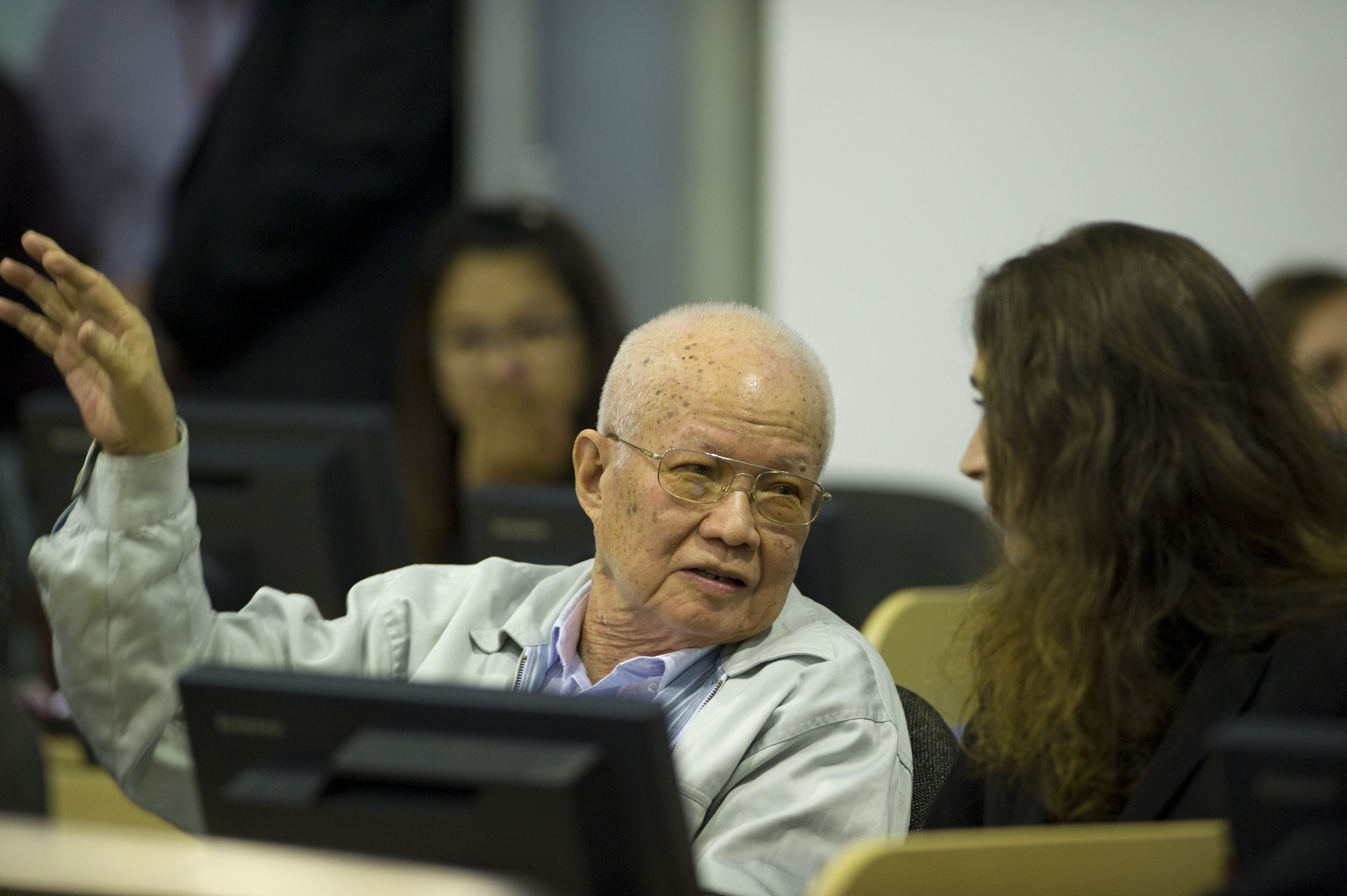 Extraordinary Chambers in the Courts of Cambodia (ECCC) finds Nuon Chea and Khieu Samphan guilty and gives them both life sentences for crimes against humanity.